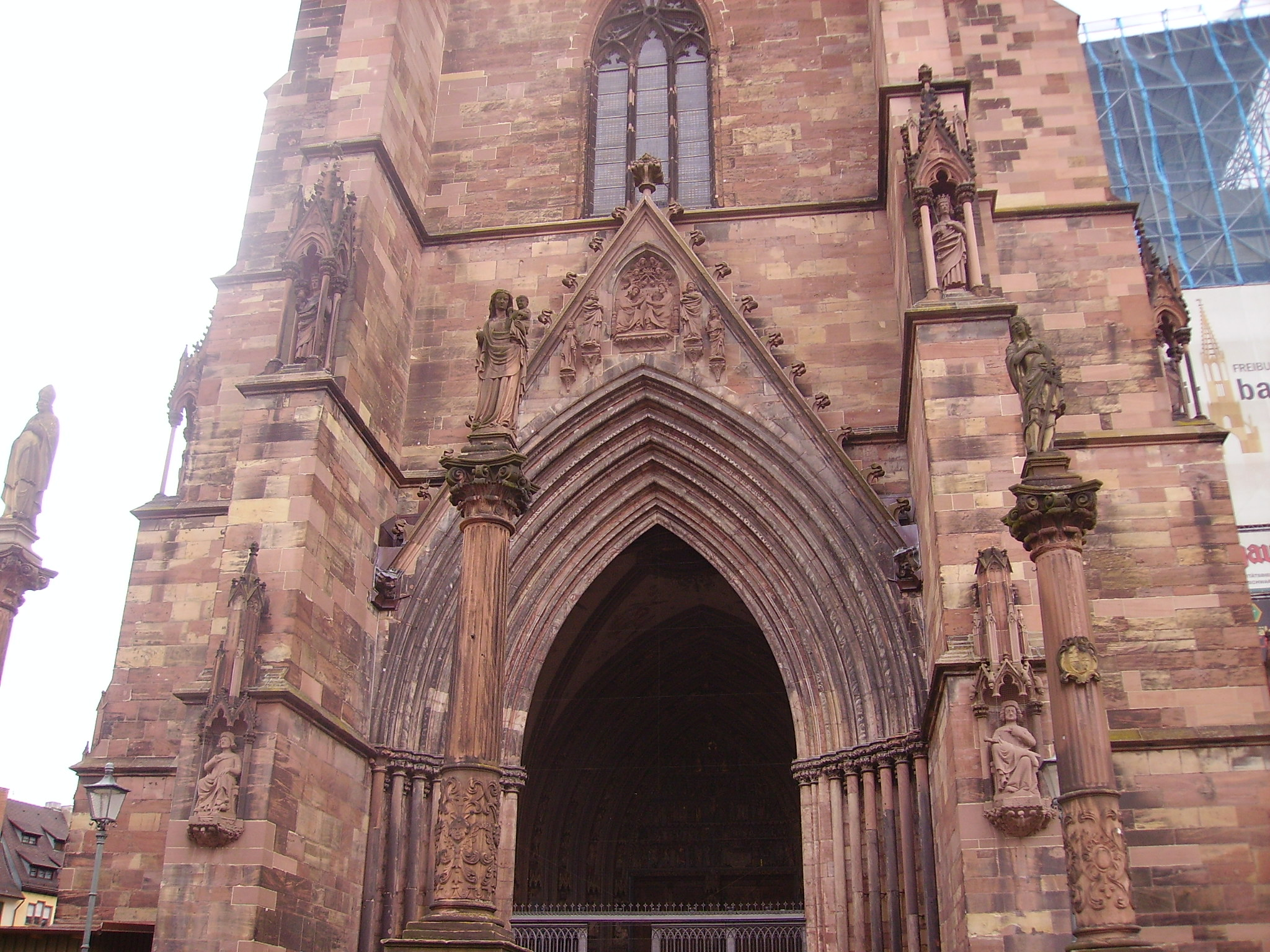 Tower of the catholic Cathedral/Minster Our Lady, Freiburg im Breisgau